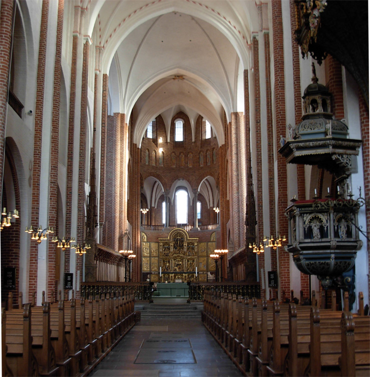 Shot taken in feb 2007 in Roskilde Cathedral. The alter is in the center. Note the doors on the display are fully open. The preachers stand is to the right.